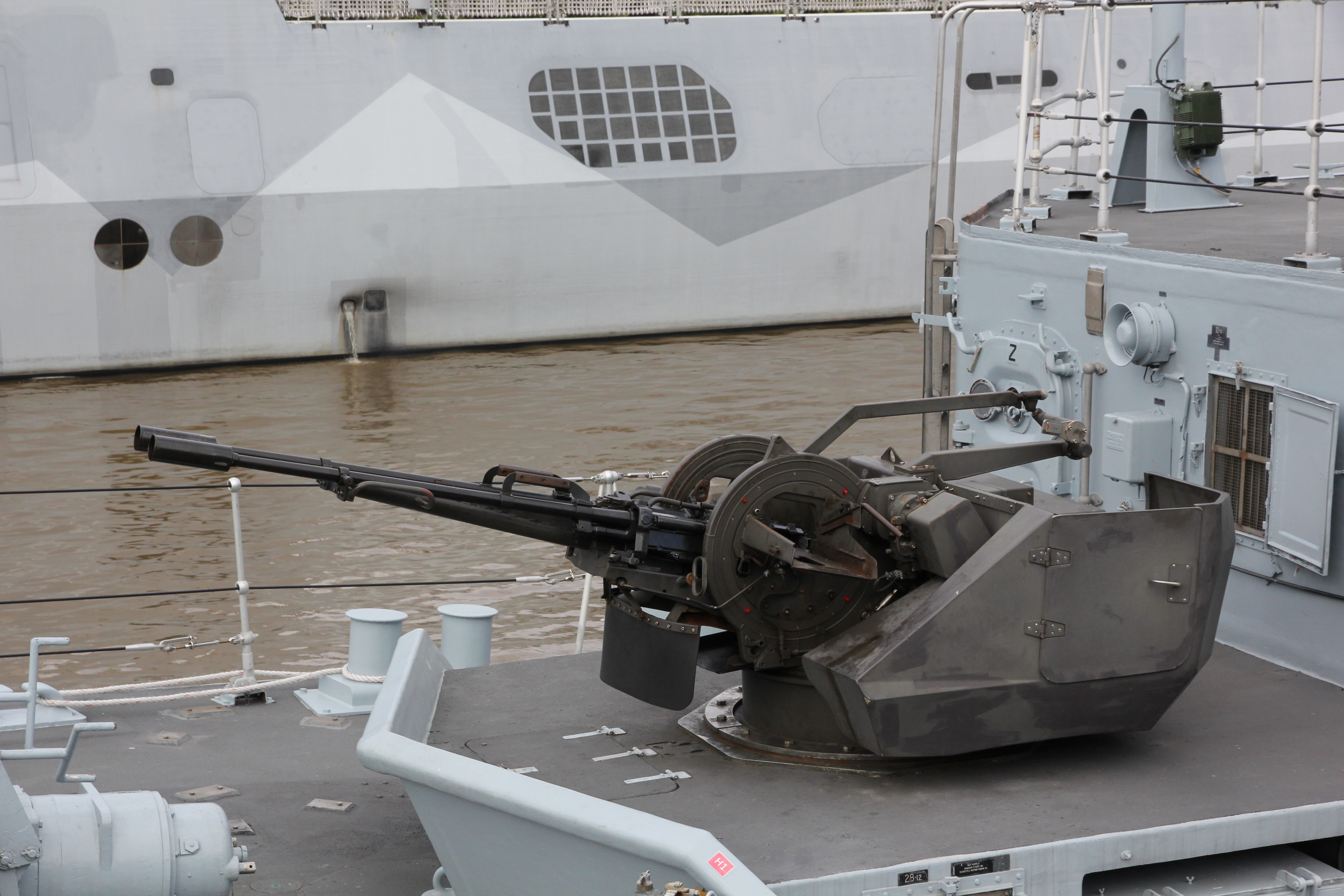 Bow 23 mm anti-aircraft gun of Estonian Sandown-class minehunter M314 Sakala photographed during the Northern Coasts 2014 exercise public pre sail event in Aura river in Turku.